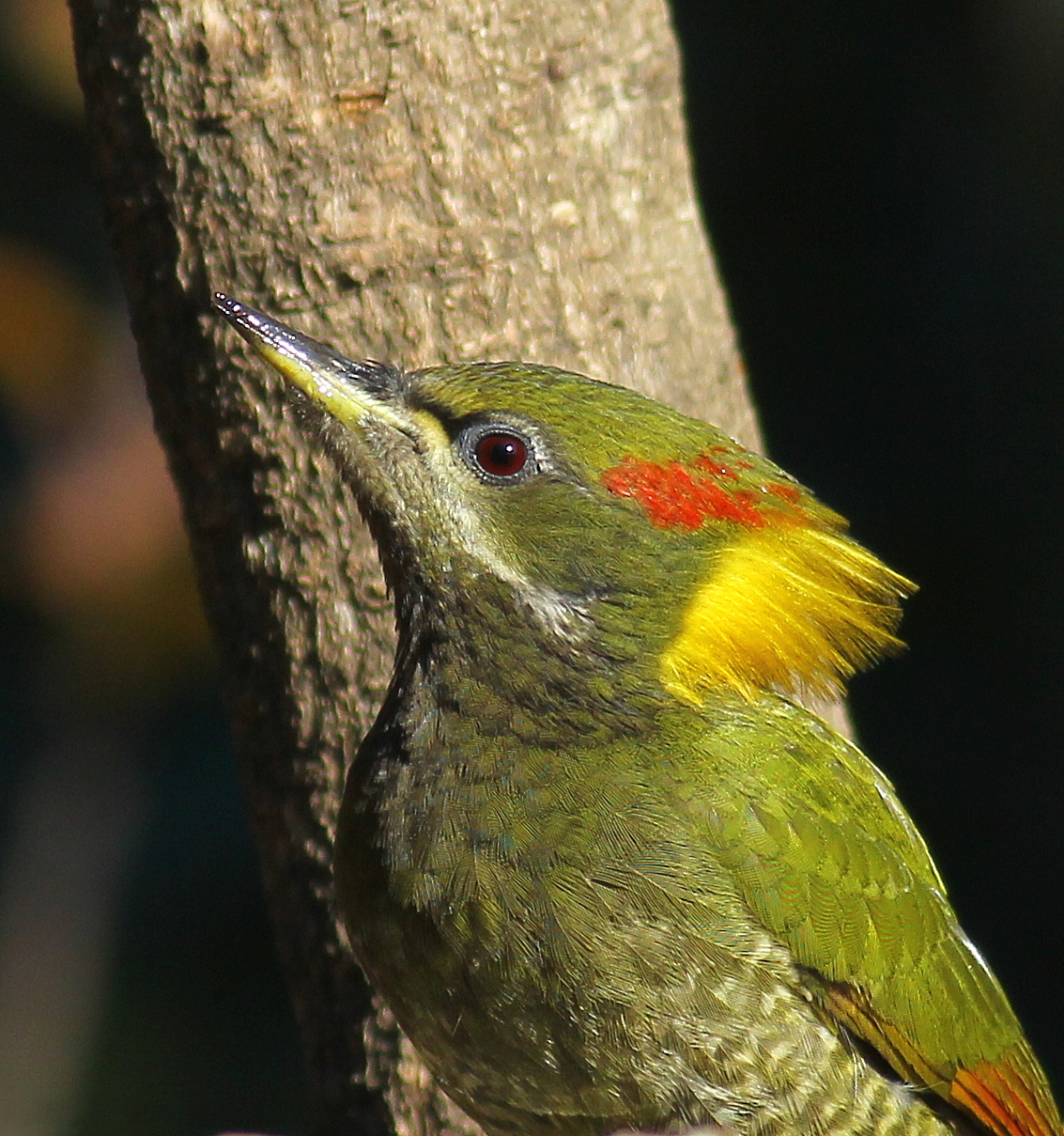 I love it's feathered yellow coloured nape.